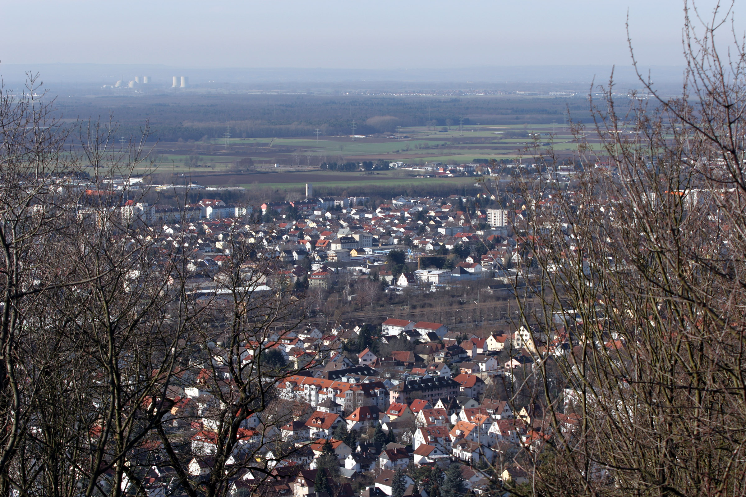 City of Bensheim, seen from the Bismarck tower at the top of the Hemsberg in Bensheim (Hesse, Germany). In the background the nuclear power plant of Biblis.